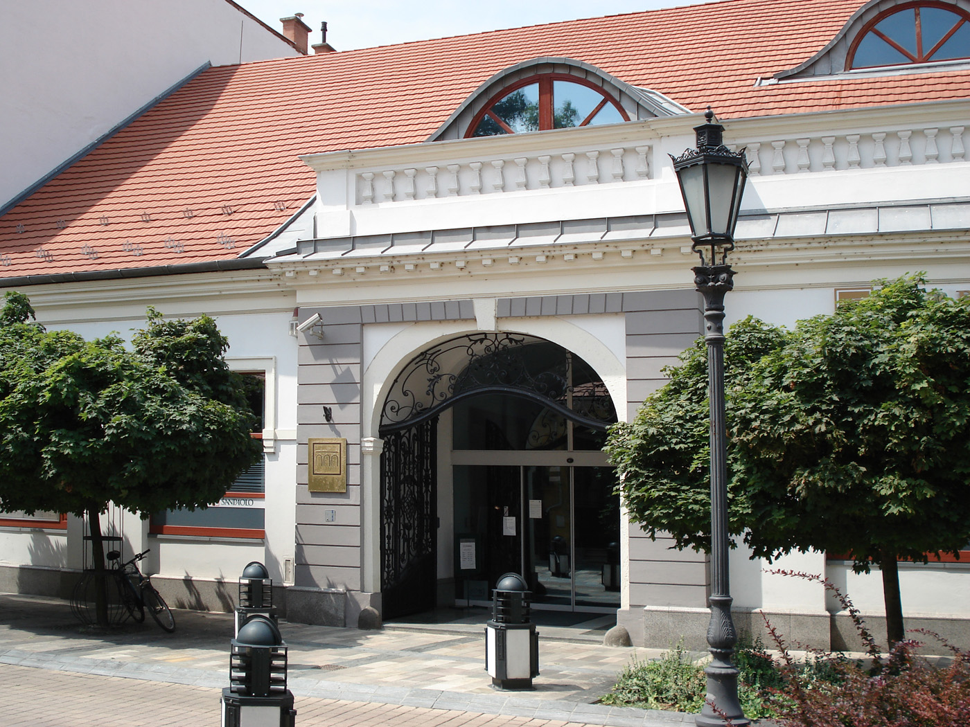 Old post office in Miskolc (Radványi house, now Déryné street), Hungary